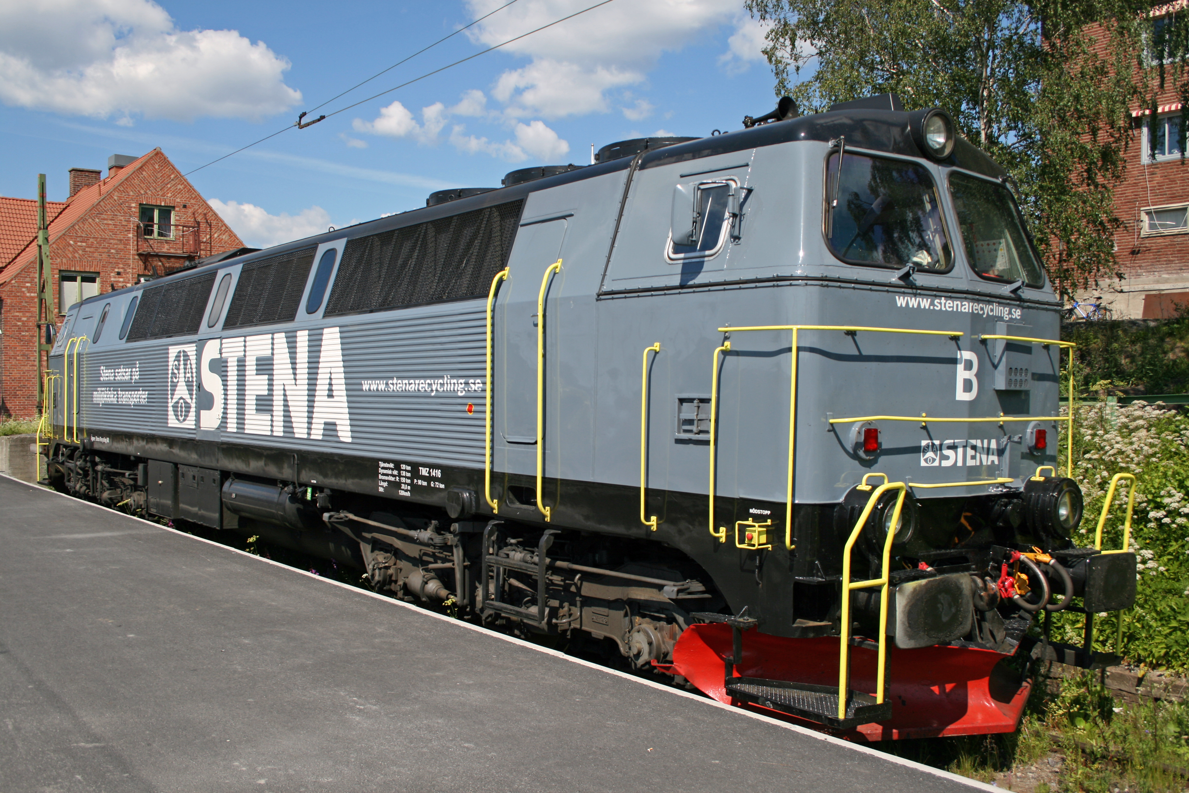 A TMZ locomotive at Östersund railway station